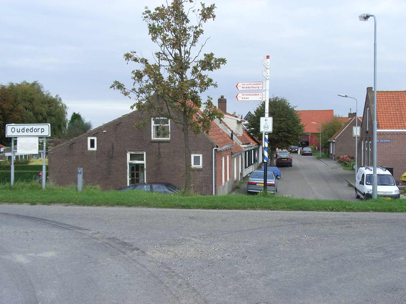 Oudedorp Nieuw- en Sitn Joosland, Walcheren, NL